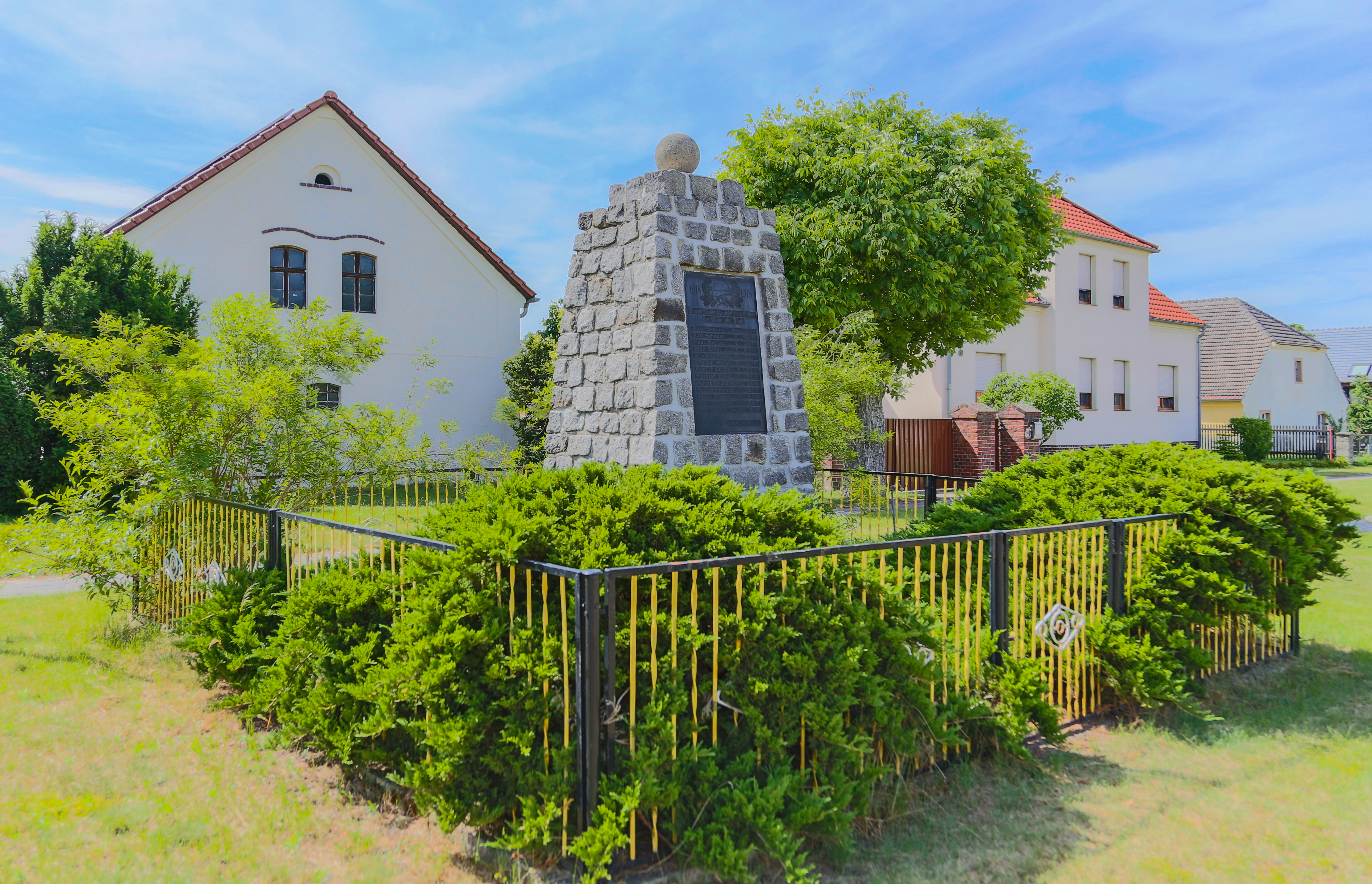 World War I memorial in Zeust, a district of Friedland, Landkreis Oder-Spree, Brandenburg, Germany.